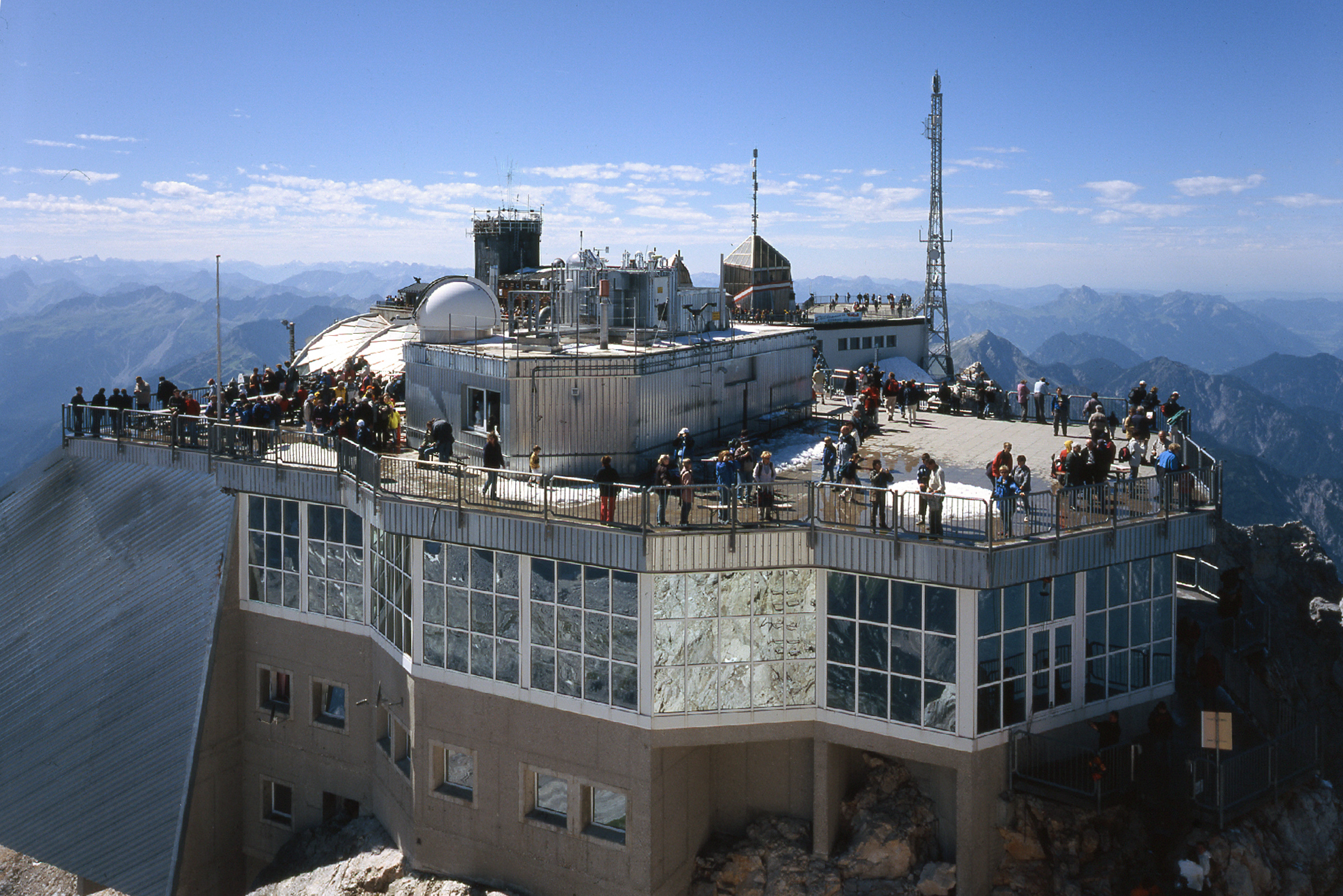 The summit of Zugspitze, Germany